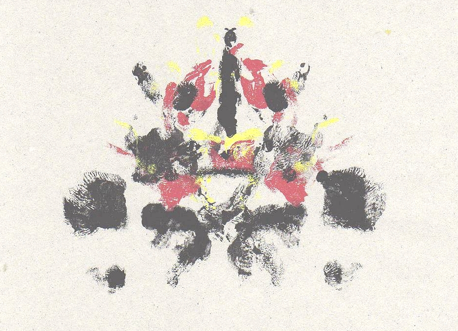 Picture similar to the Rorschach test inkblots